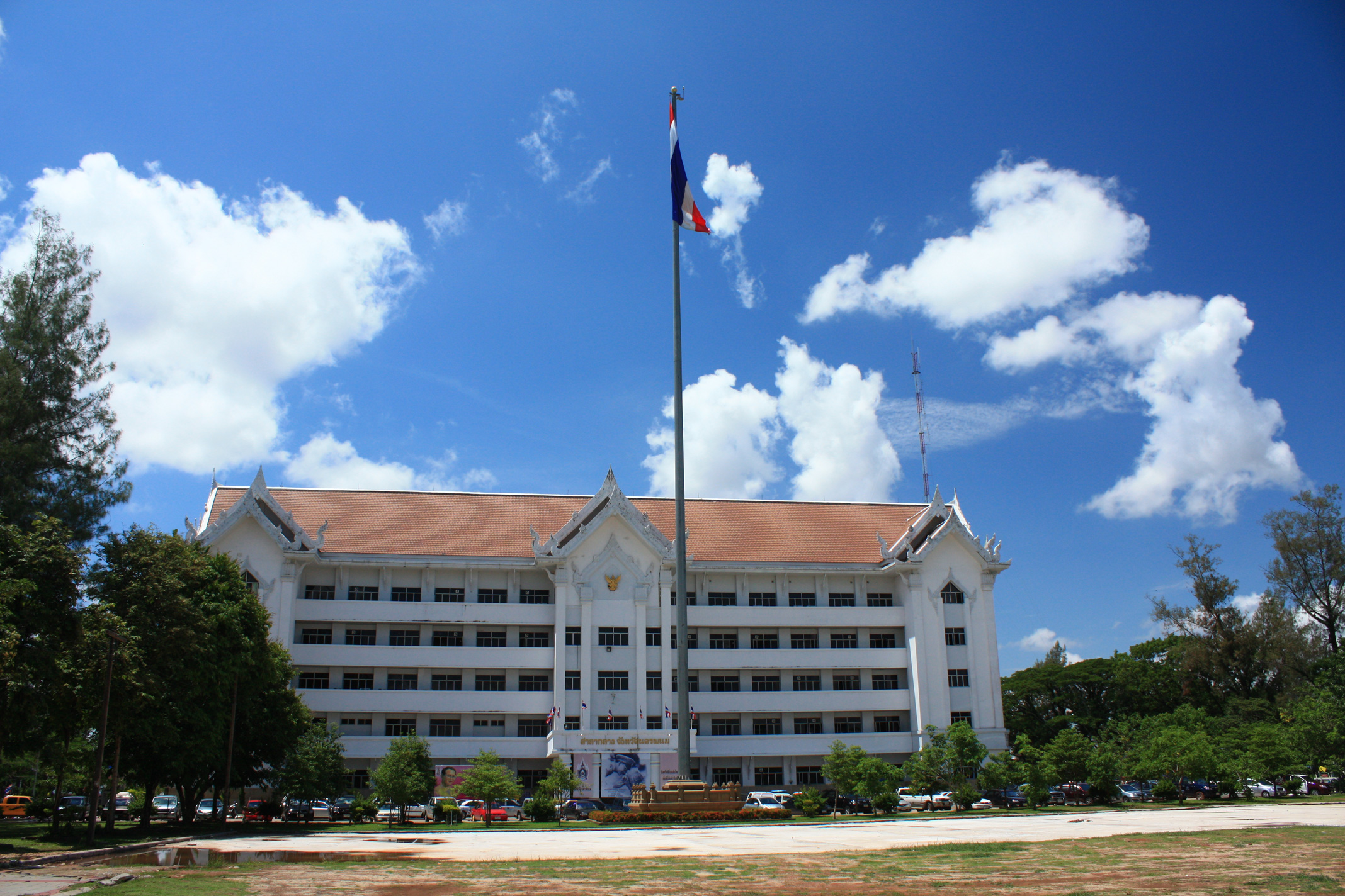 Sala Klang (province hall) of Nakhon Phanom